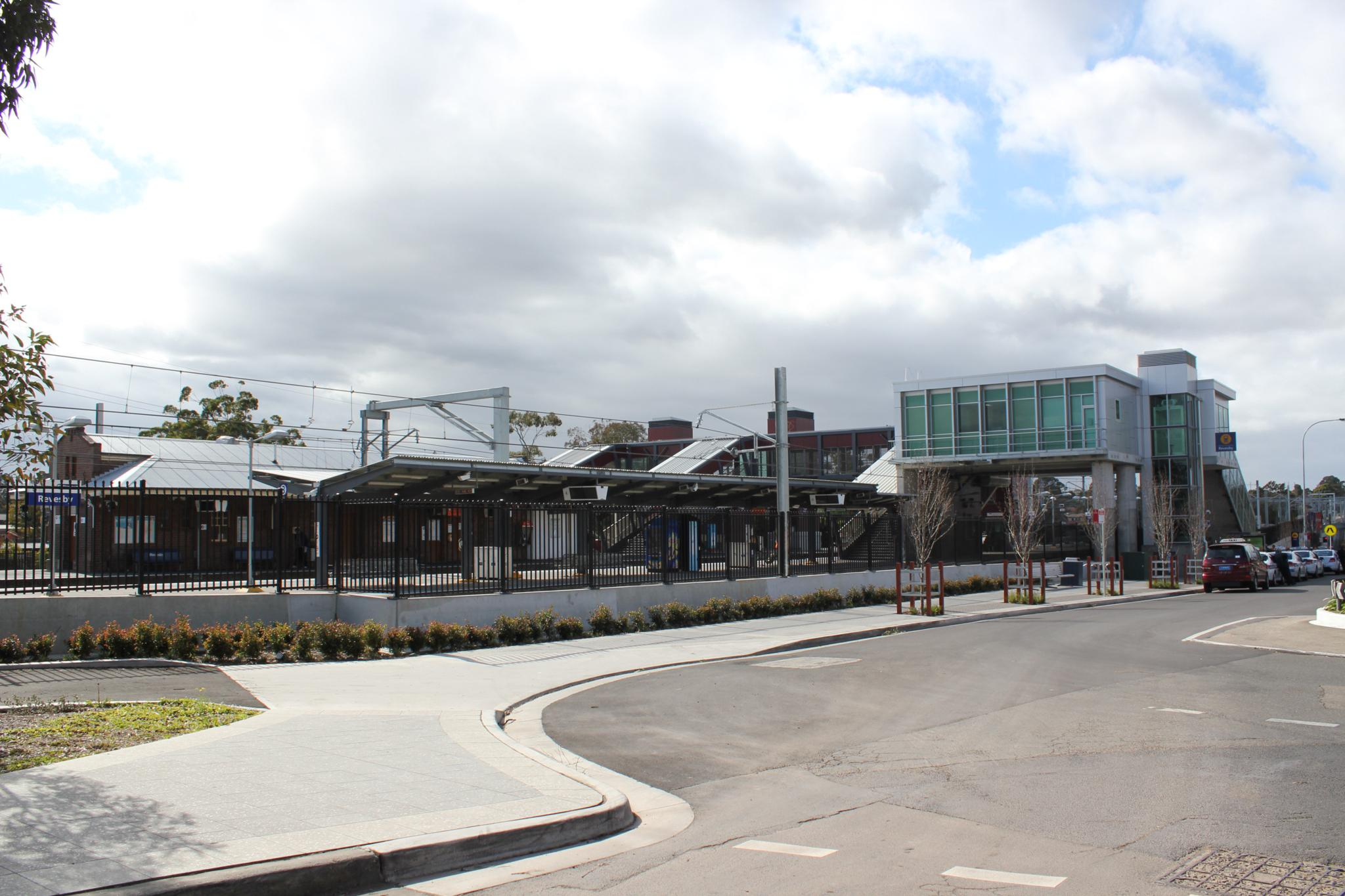 ROUNDABOUT